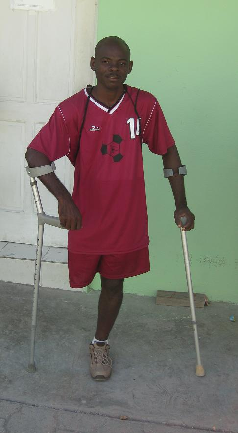 Player of Team Zaryen poses for photo